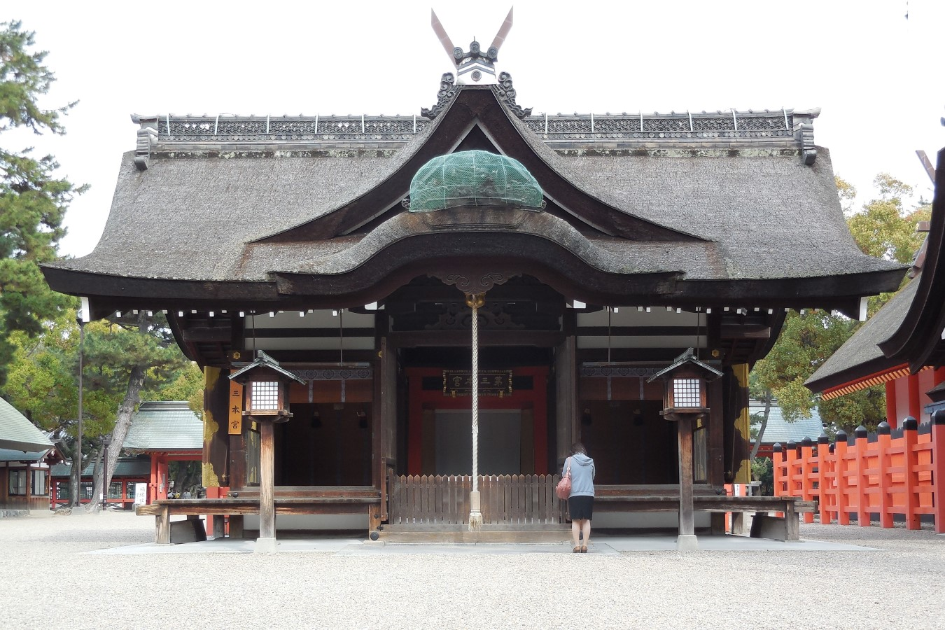 Sumiyoshi Taisha Hongu 3